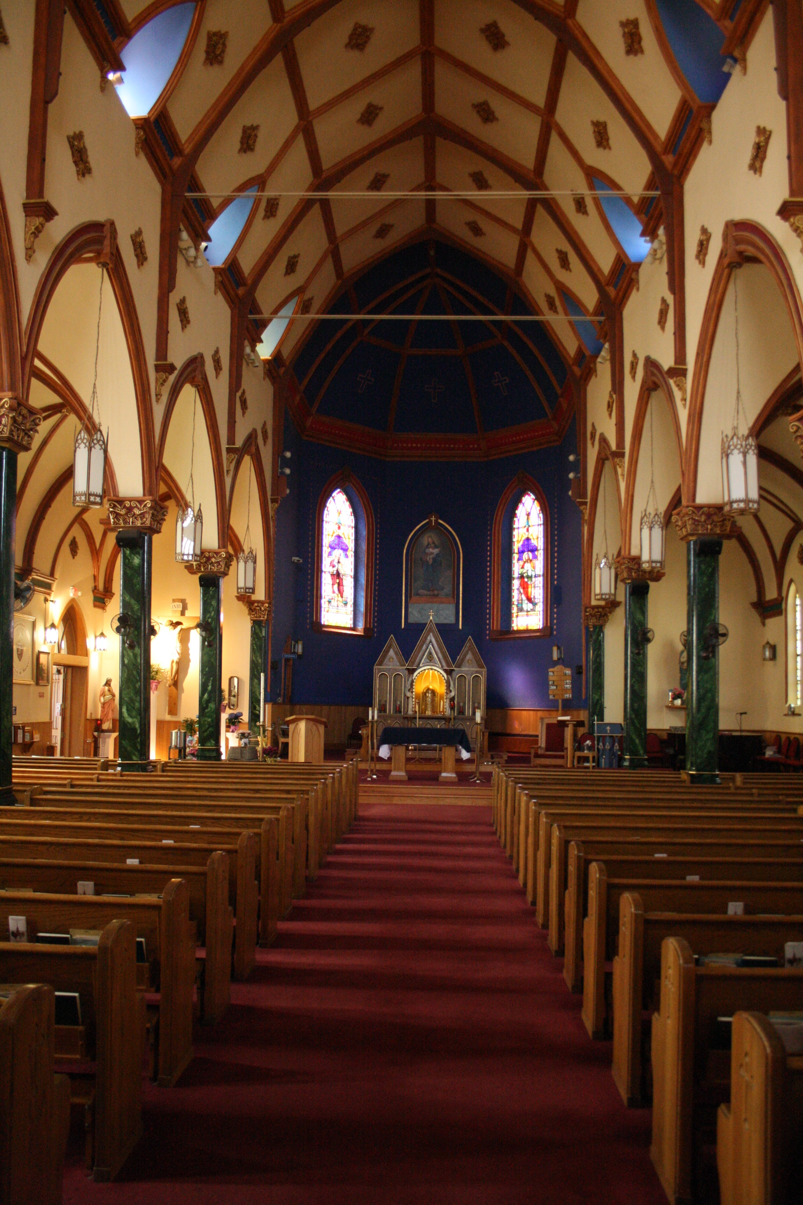 Interior of St. Mary Church in Sault Ste. Marie, Michigan. It was previously a Pro-Cathedral.